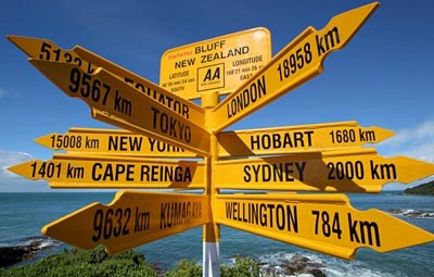 Signpost located at the very end of State Highway 1, in Bluff. The sign depicts distance and direction to various other cities and locations around the world, including the Equator and the South Pole (not visible from this angle). Picture taken by Adam Buczynski.